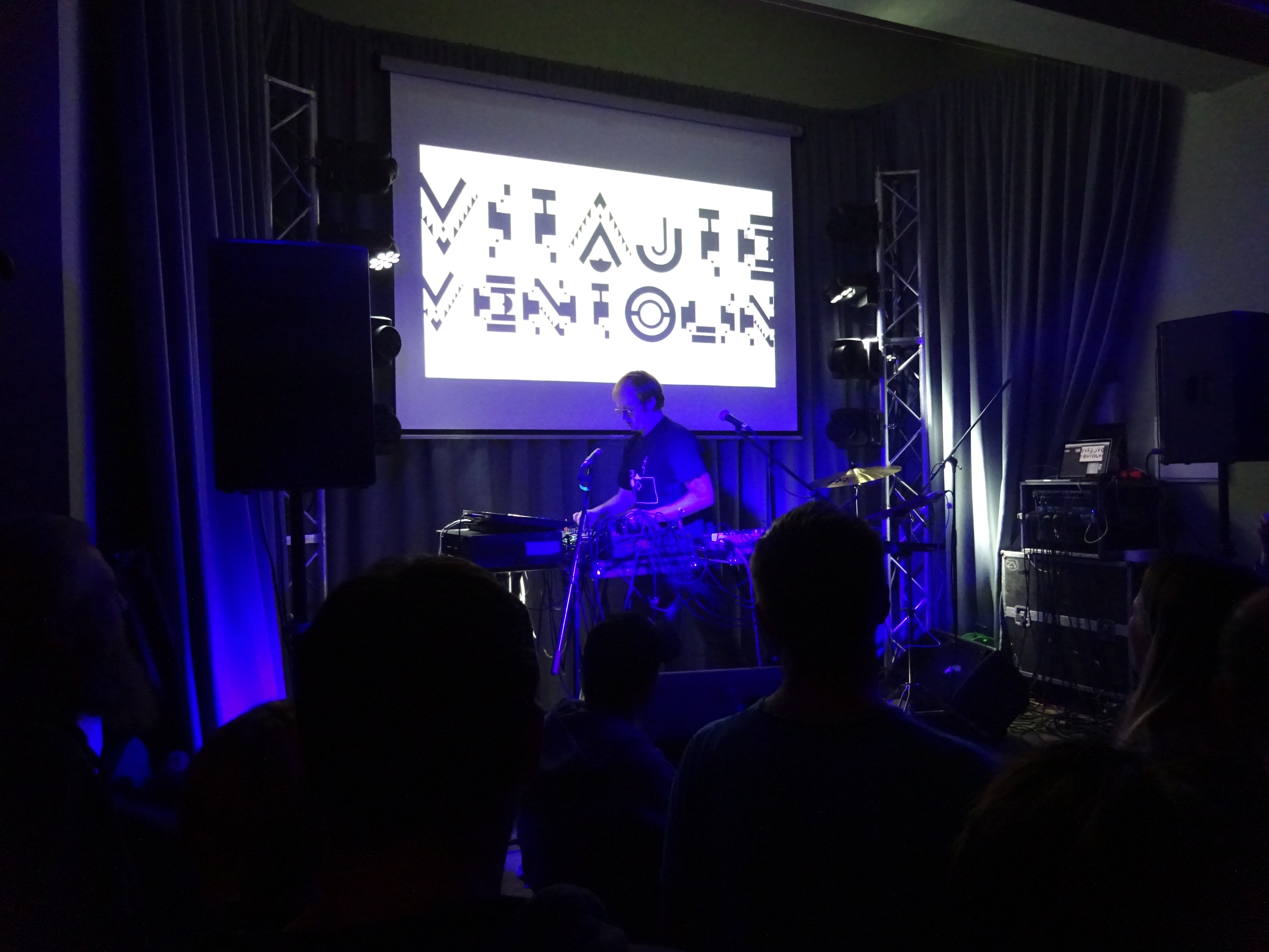 Ventolin (Czech musician and DJ) - concert in Střelnice, Tábor - January 11, 2019